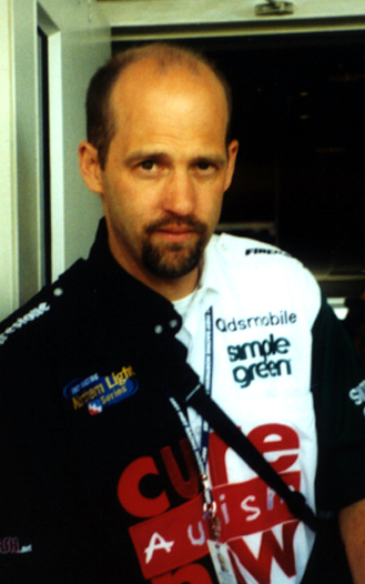 Anthony Edwards at the 2002 Indianapolis 500.